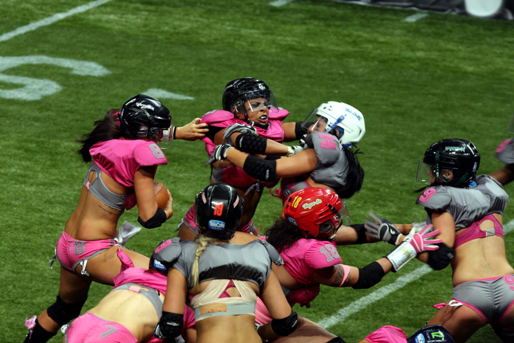 Lingerie Football League All-Star Games Tour match at Allphones Arena, Sydney.